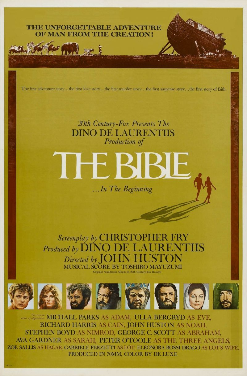 Theatrical poster for John Huston's The Bible... In the Beginning (1966), posted by a user on .